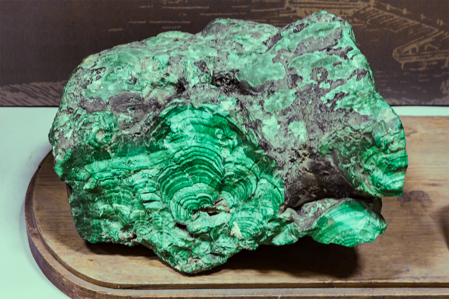 Malachite. The exhibit of the Moscow Polytechnic Museum.